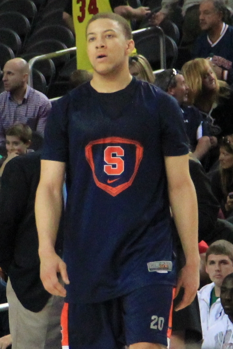 Syracuse Orange men's basketball player Brandon Triche